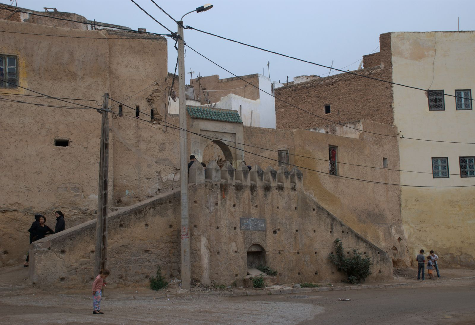 Sefrou, Morocco, al-Qala outside old town